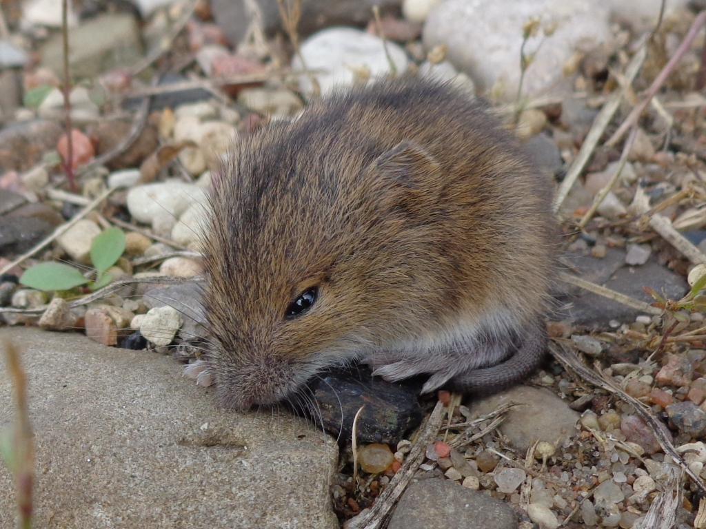 Sicista betulina. Found in Riga town, Latvia